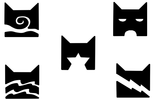 Logo of five clans of Warrior Cats